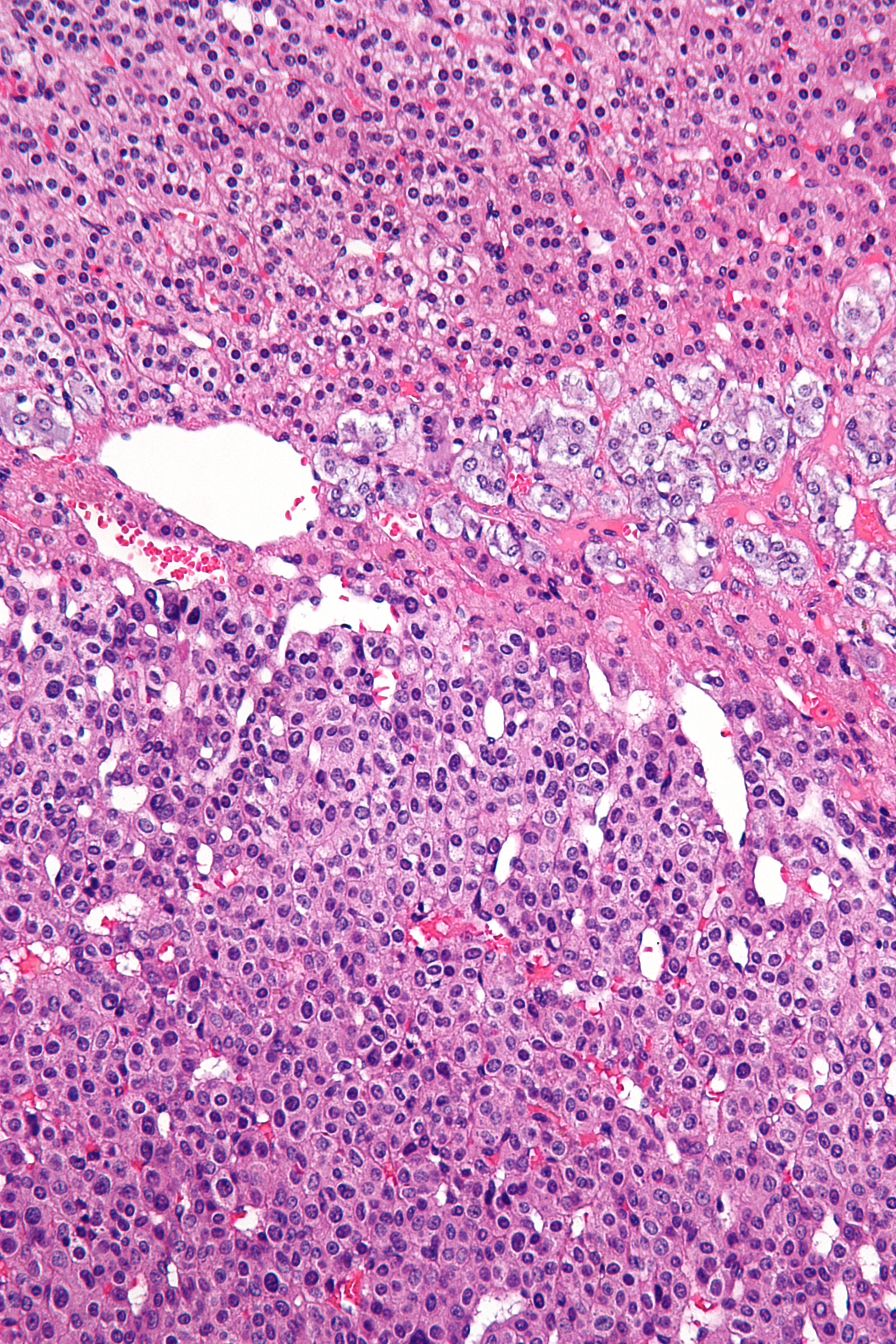 High magnification micrograph of an adrenal cortical carcinoma, also adrenocortical carcinoma. H&E stain. Related images Very low mag. Low mag. Intermed. mag. High mag. High mag. Very high mag.